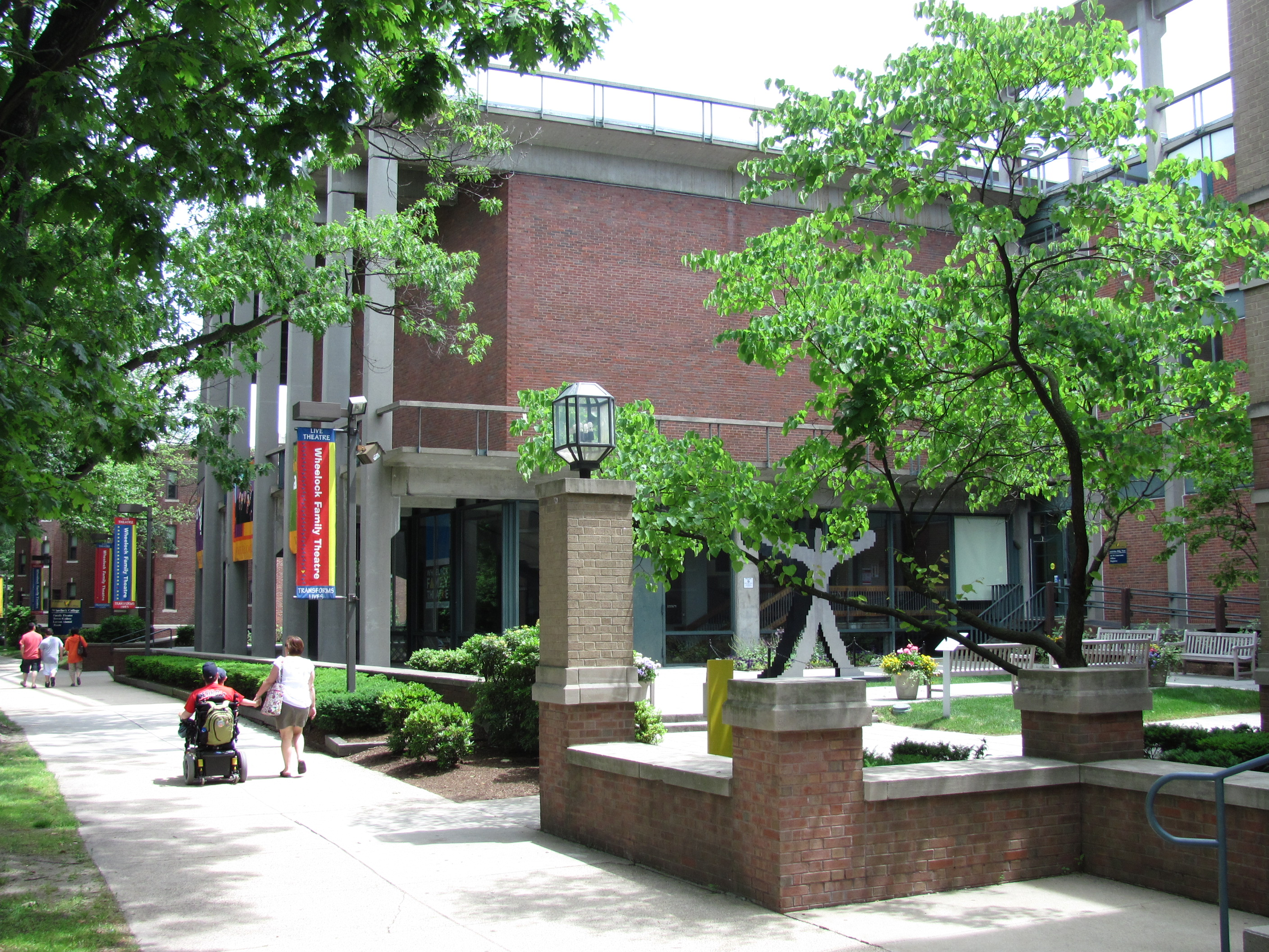 Wheelock Family Theatre, Boston Massachusetts